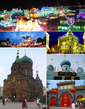 Montage of various Harbin images